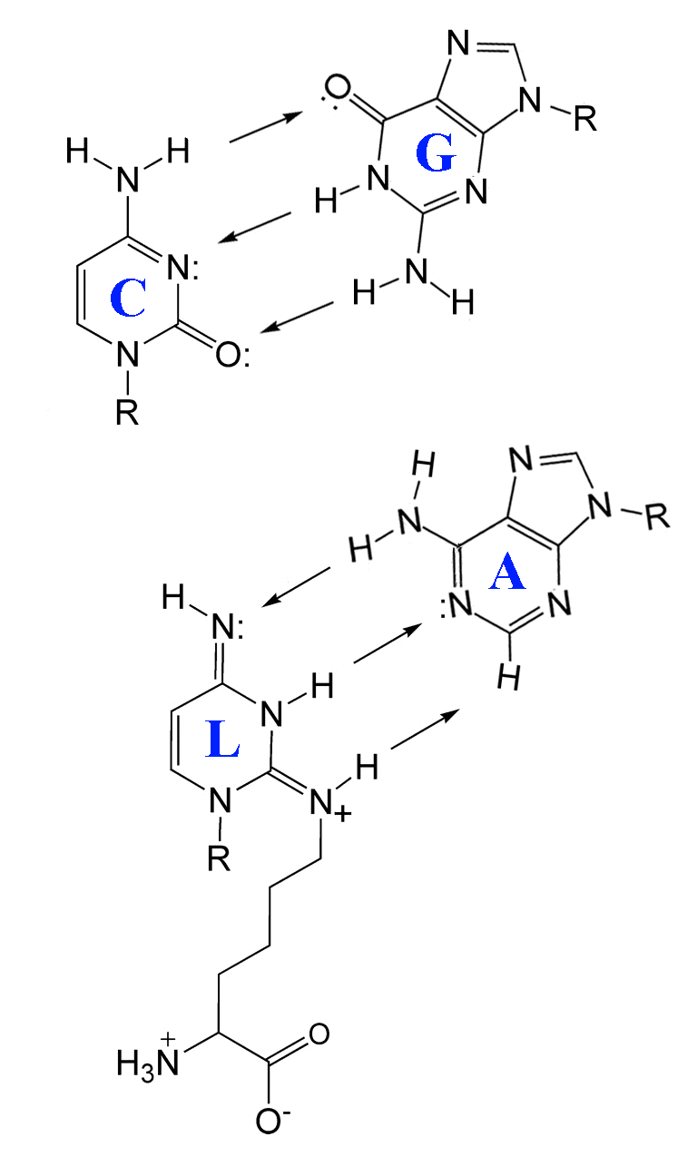 Base Pairing of Lysidine with Adenosine compared to Cytosine with Guanosine base pairs. R = ribose. Lysidine is found in Ile specific tRNAs recognizing the AUA codon.